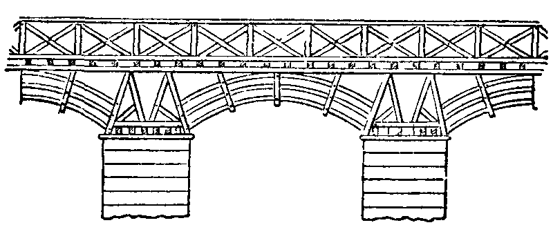 Trajan Bridge. Illustration from 1911 Encyclopædia Britannica, article Bridges. Dio Cassius mentions a bridge, possibly 3000 to 4000 ft. in length, built by Trajan over the Danube in 104 AD. Some piers are said still to exist. A bas-relief on the Trajan column shows this bridge with masonry piers and timber arches, but the representation is probably conventional (fig. 1). Original caption: FIG. 1.—Trajan's Bridge.